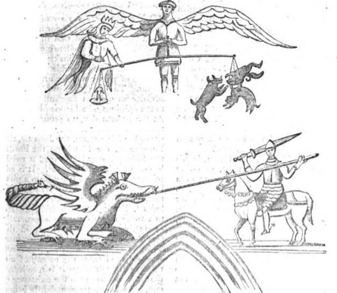 The lost medieval wall paintings at St Mary's church, Stotfold